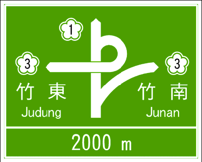 Taiwanese Guide Sign G22: Destination Guide Signs